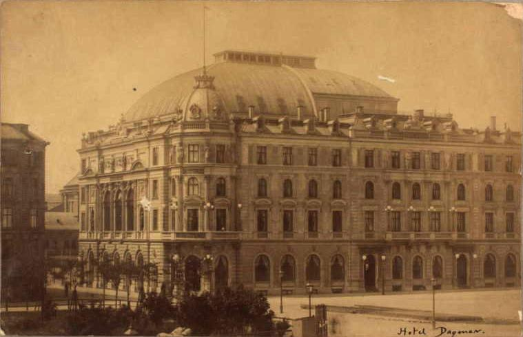 Postcard of Dagmarteatret and Hotel Dagmar